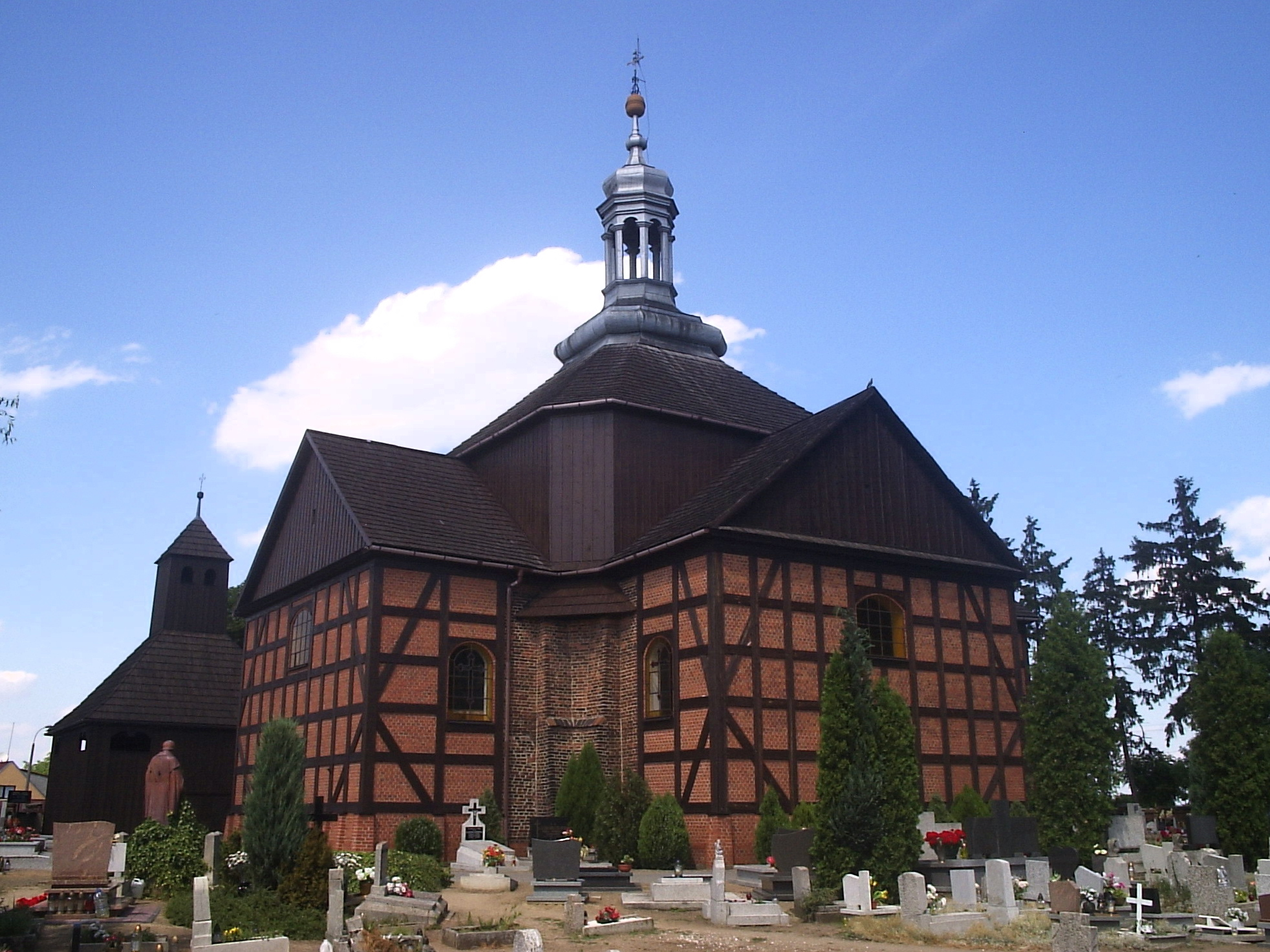 Church in Jutrosin, Poland